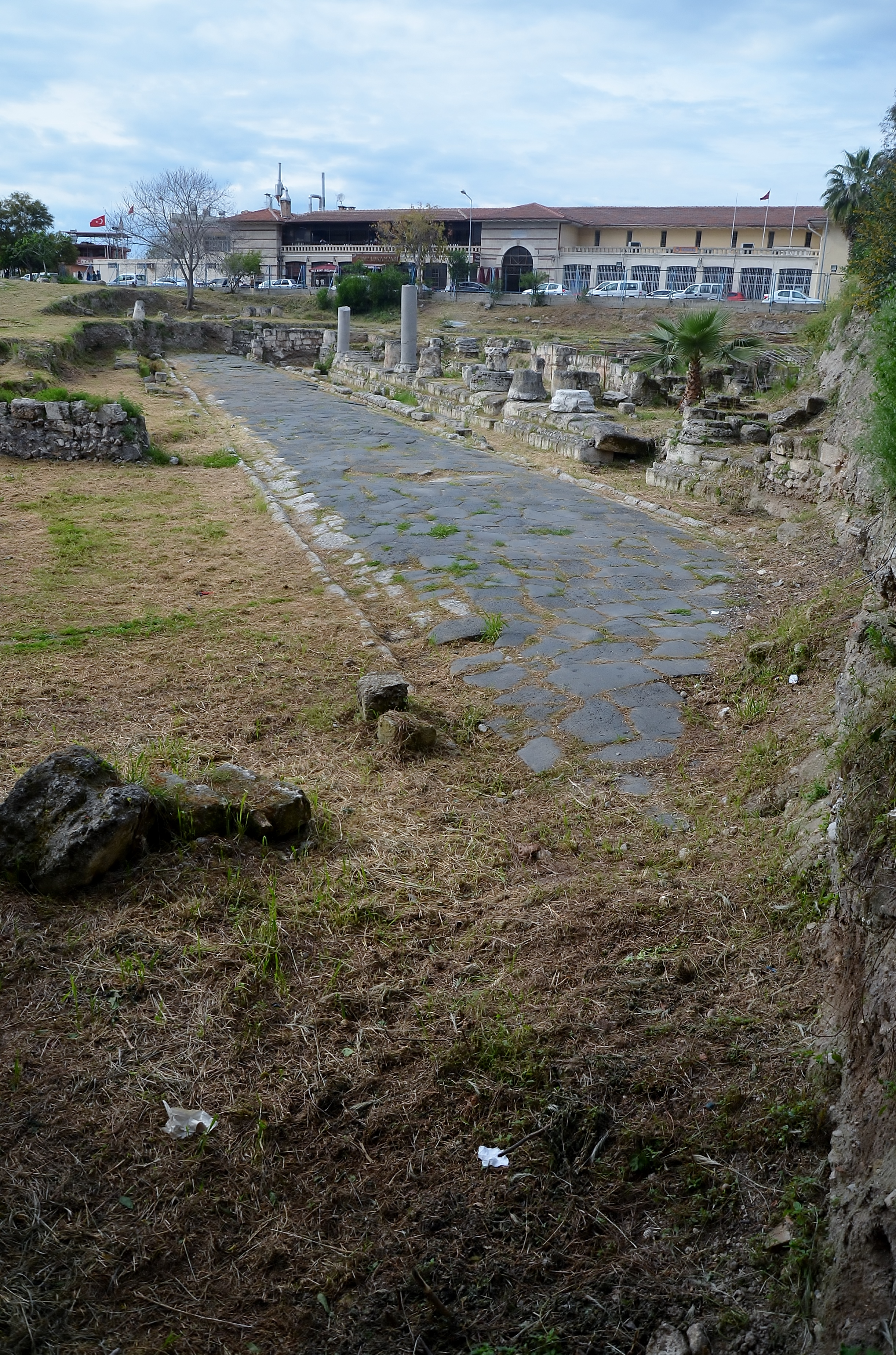 Ancient road in Tarsus